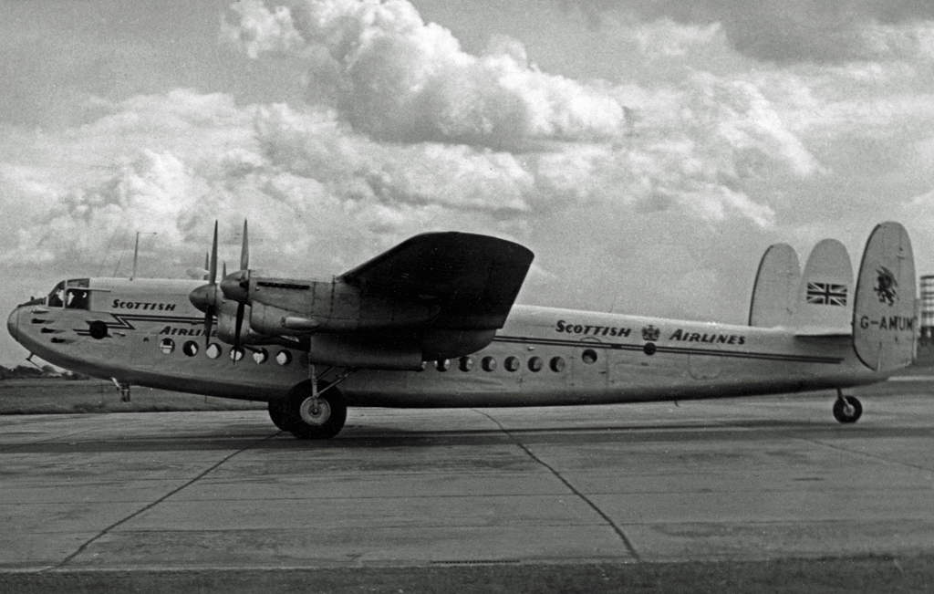 Avro 685 York G-AMUM of Scottish Airlines at London (Heathrow) Airport